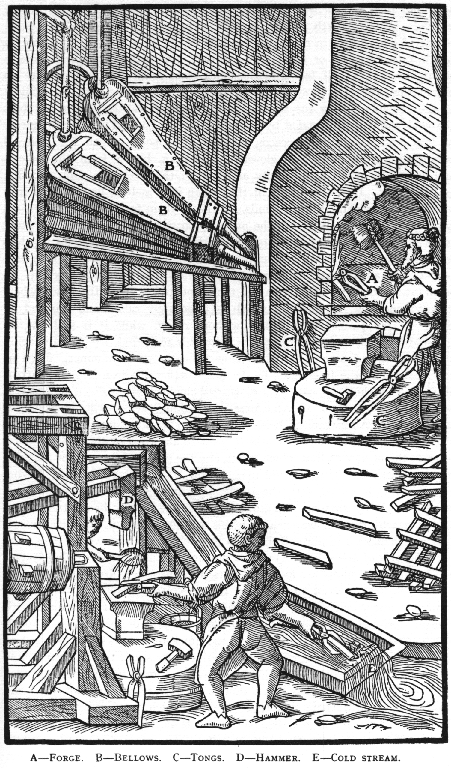 Woodcut illustration from De re metallica by Georgius Agricola. This is a 300dpi scan from the 1950 Dover edition of Herbet Hoover's 1913 translation of the 1556 reference. The Dover edition has slightly smaller size prints than the Hoover (which is a rare book). The woodcuts were recreated for the 1913 printing. Filenames (except for the title page) indicate the chapter (2, 3, 5, etc.) followed by the sequential number of the illustration.